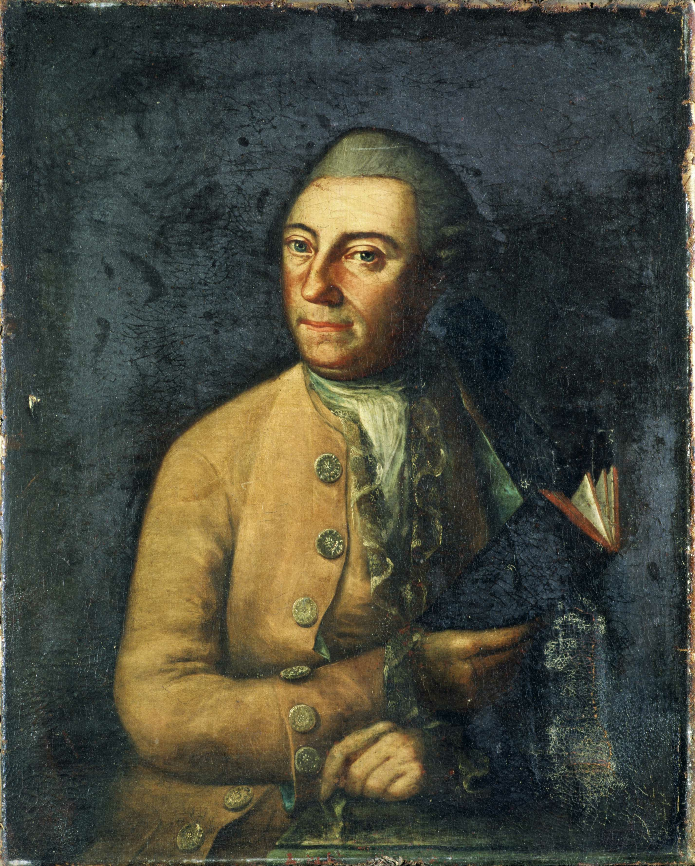 Portrait of Jacob Aars (1736-1807)